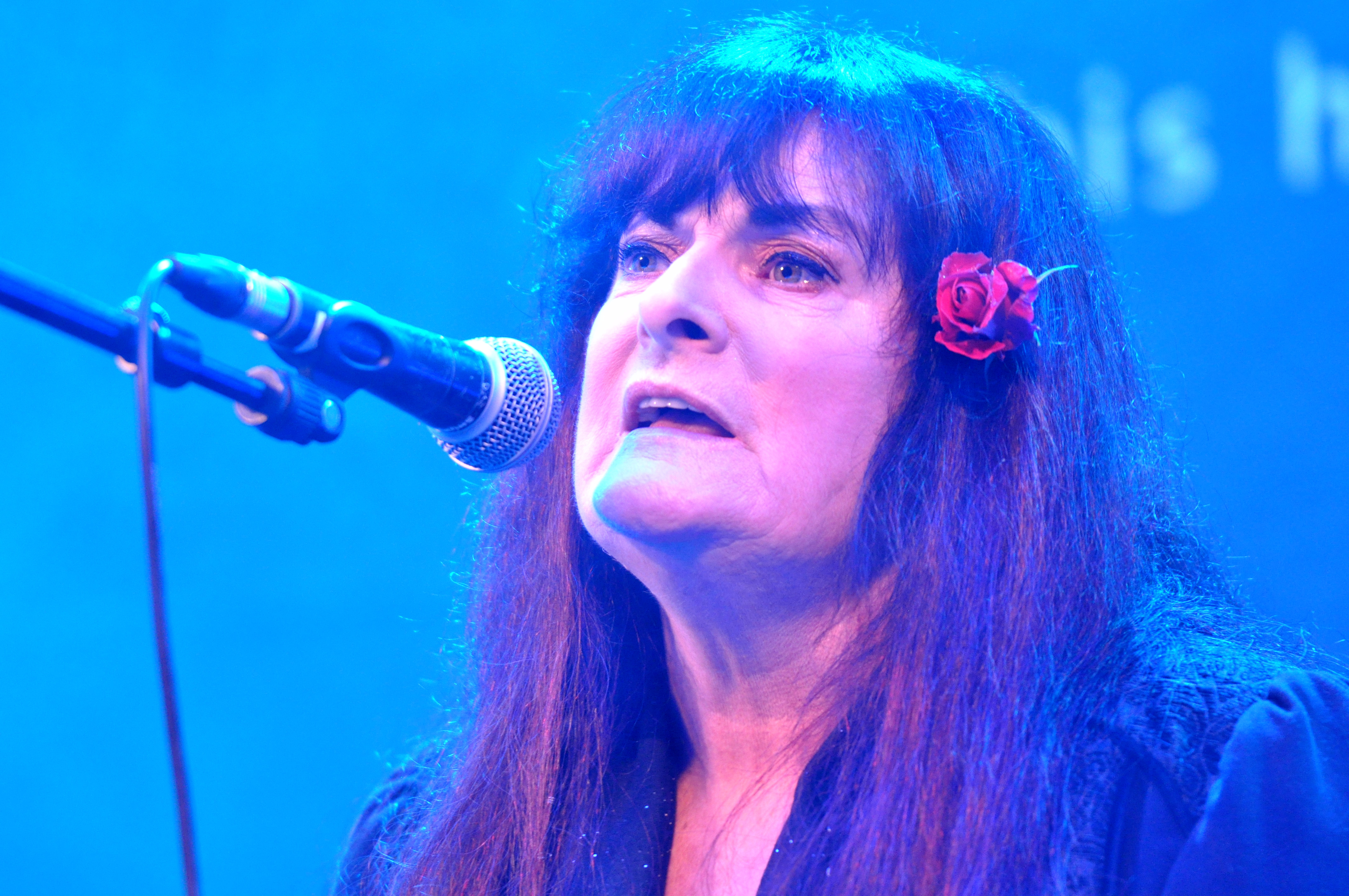 Geraldine MacGowan (IRL) appearance at the 2016 blacksheep festival at Bonfeld castle, Bad Rappenau, Baden-Wuerttemberg, Germany Festivalsommer This photo was created with the support of donations to Wikimedia Deutschland in the context of the CPB project "Festival Summer".